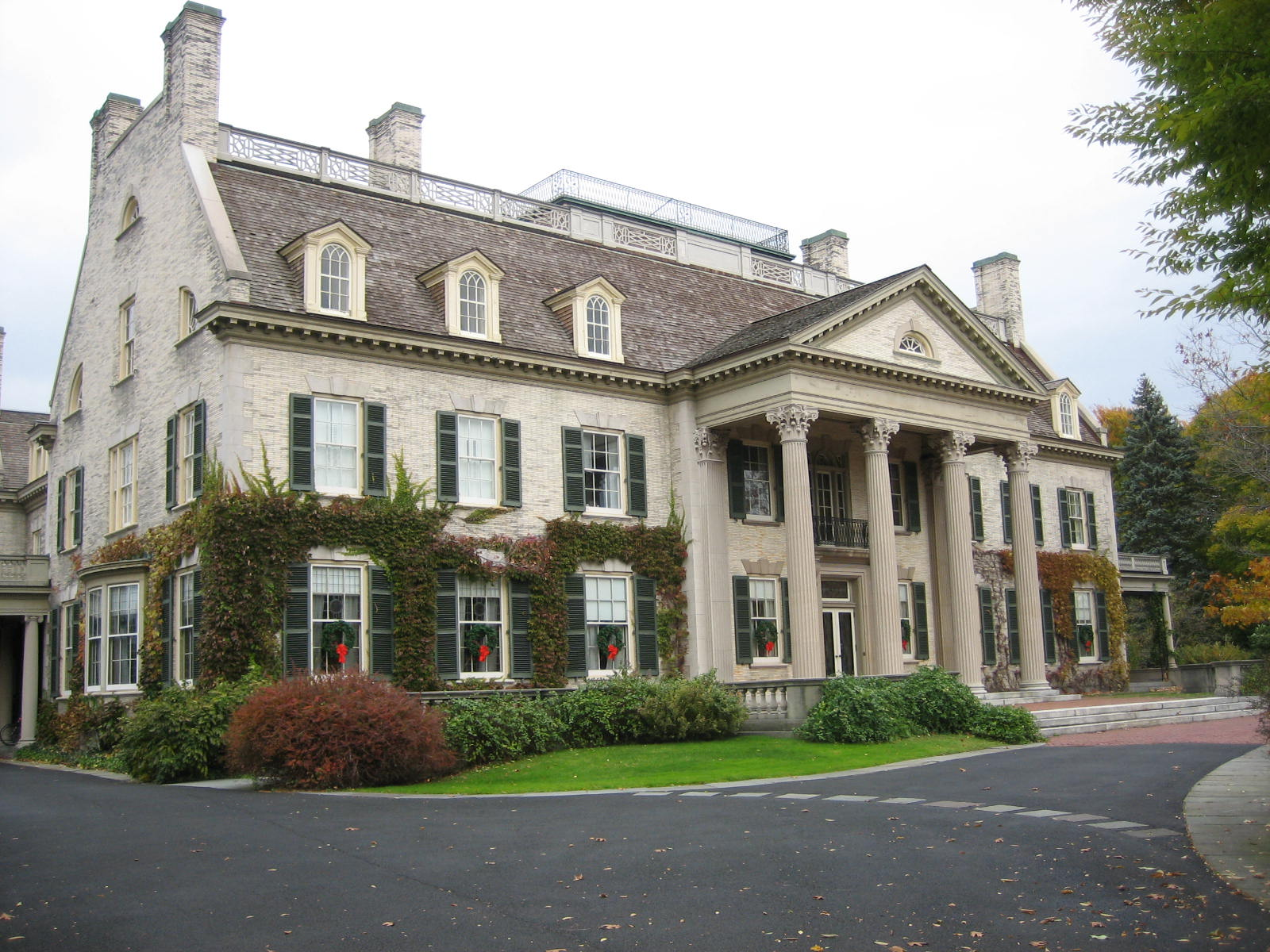 George Eastman house exterior, Rochester, New York